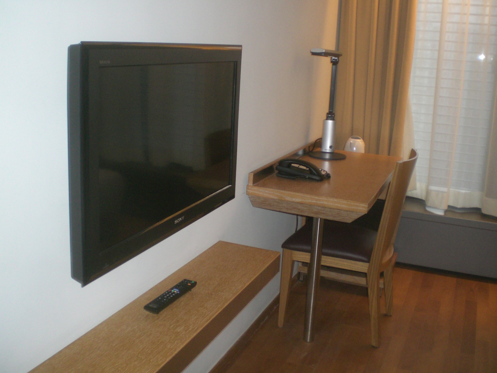 Y-Loft, Hong Kong, Centre for Youth Development (Youth Square)